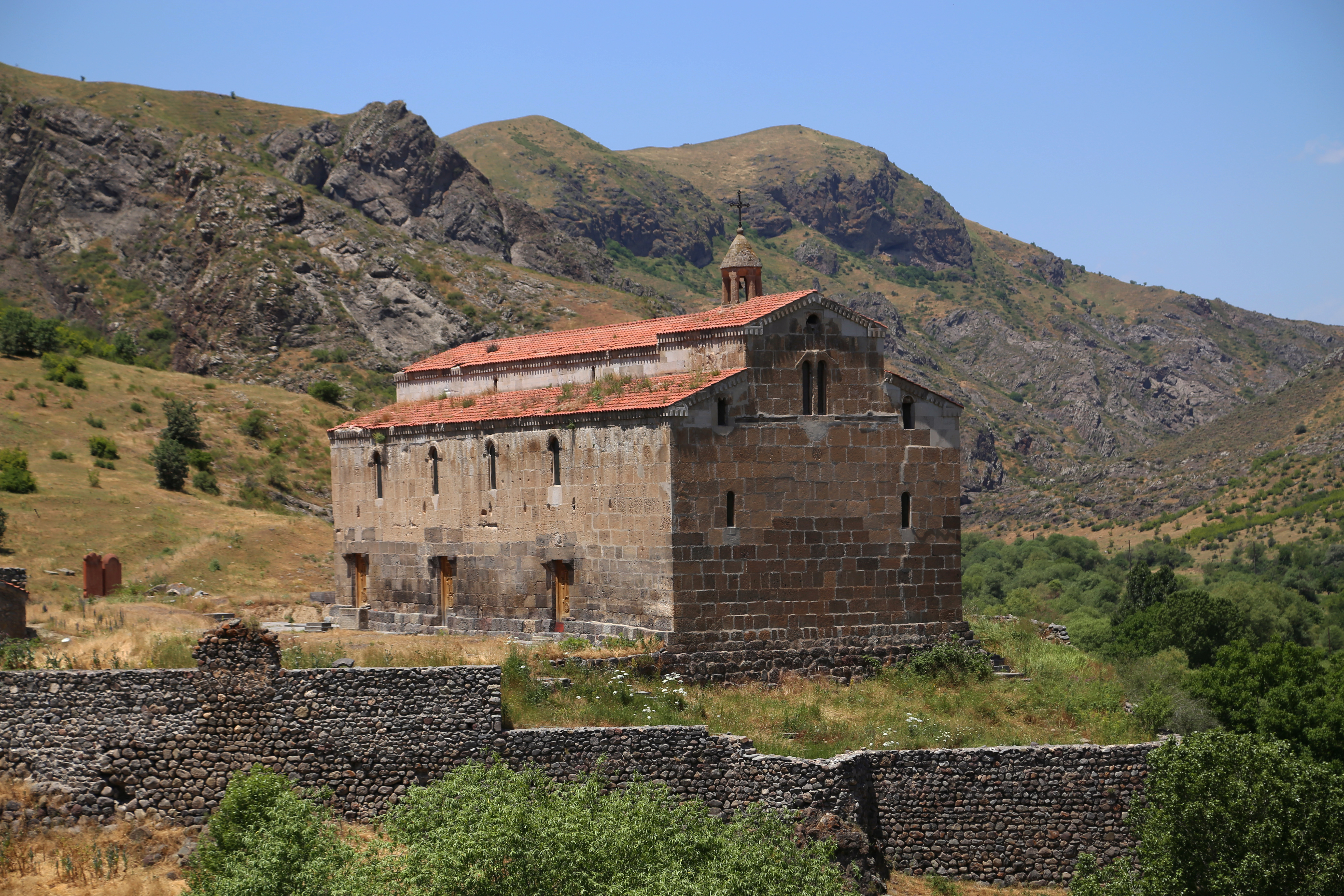 Tzitzernavank Monastery in Kosalar, Lachin District